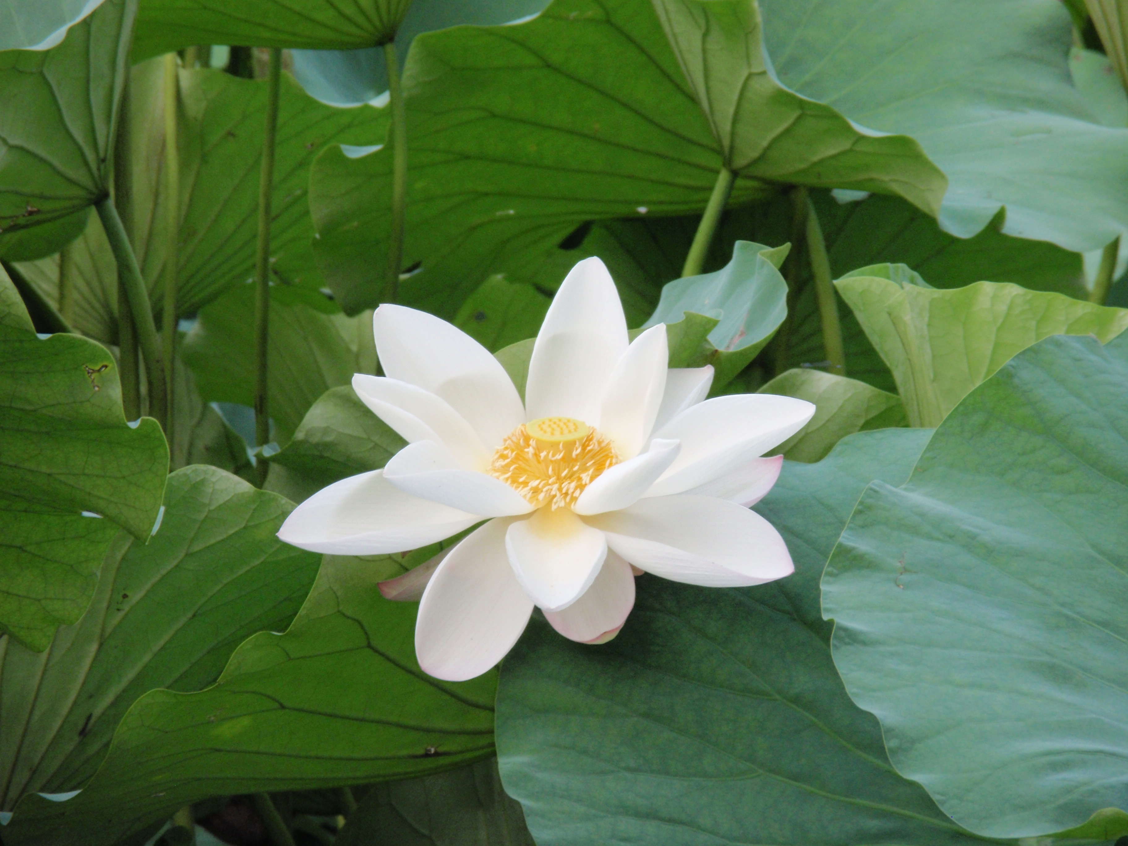 A white lotus flower in Zhizuyuan Park in Beijing.